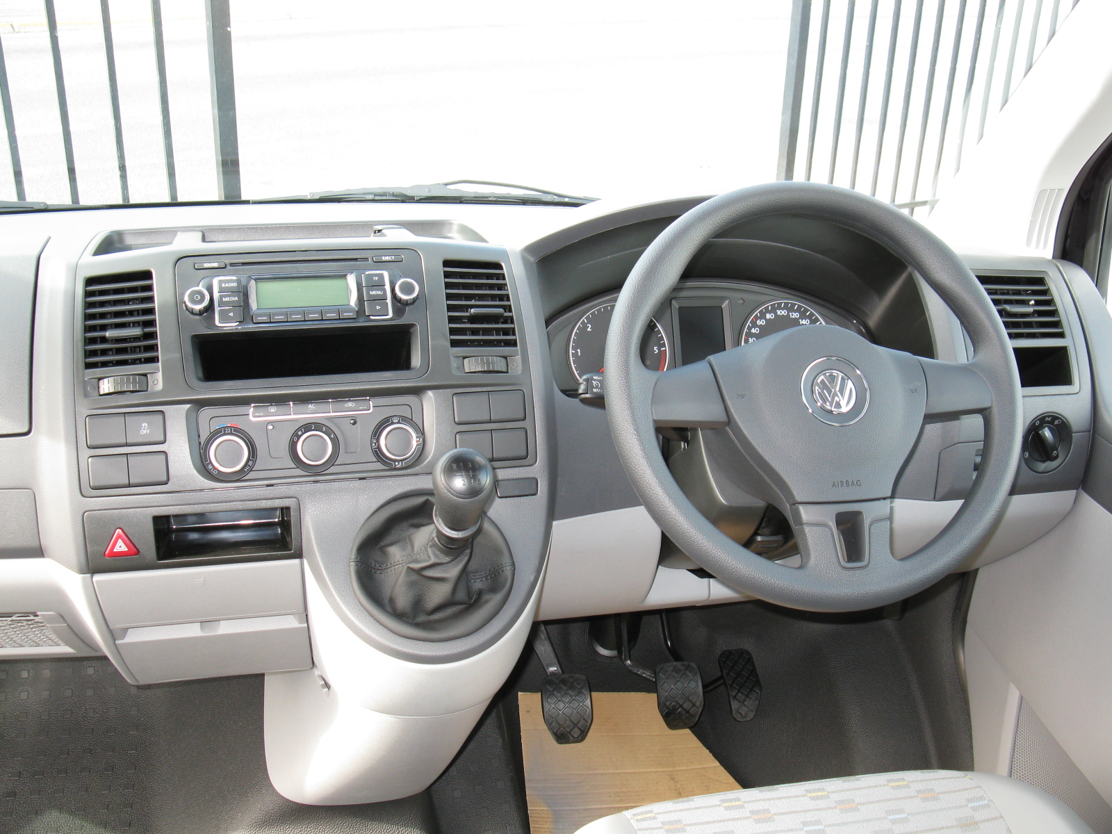 Volkswagen 2.0 BiTDI 132kW from a Transporter Interior in Australia